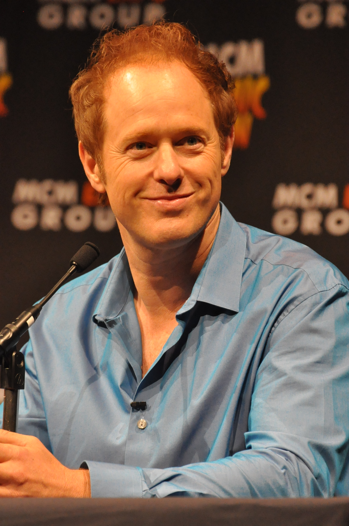 DSC_0605 MCM London Comic Con, Once Upon A Time Panel with Jane Espenson, Raphael Sbarge, Keegan Connor Tracy and Jessy Schram.